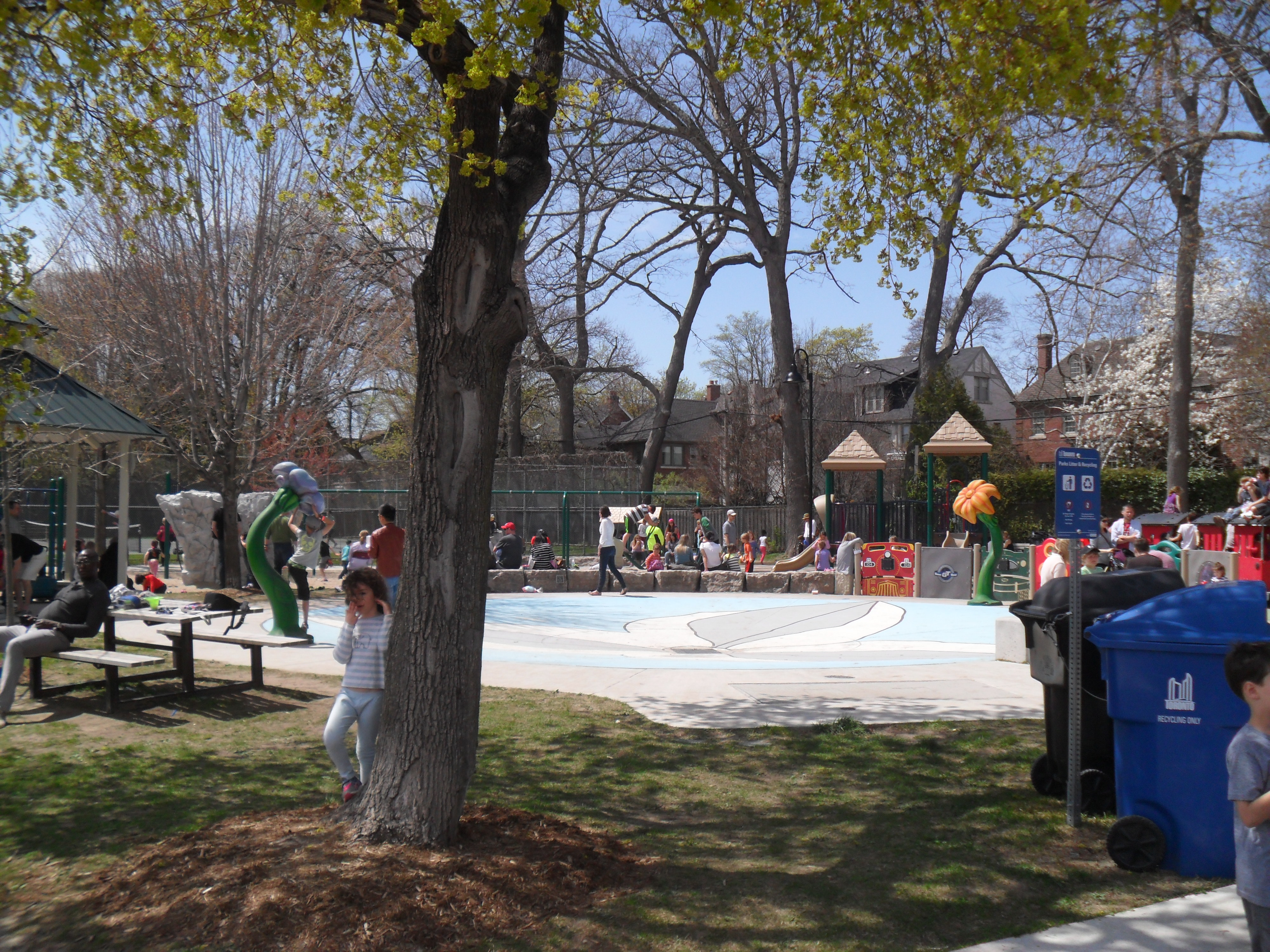 The playground and wading pool in Rosedale Park, Toronto